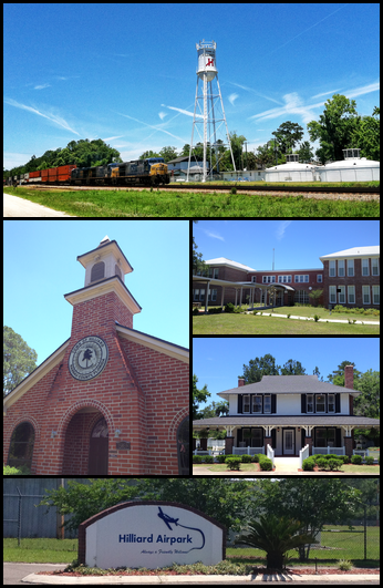 Collection of photos I took around Hilliard